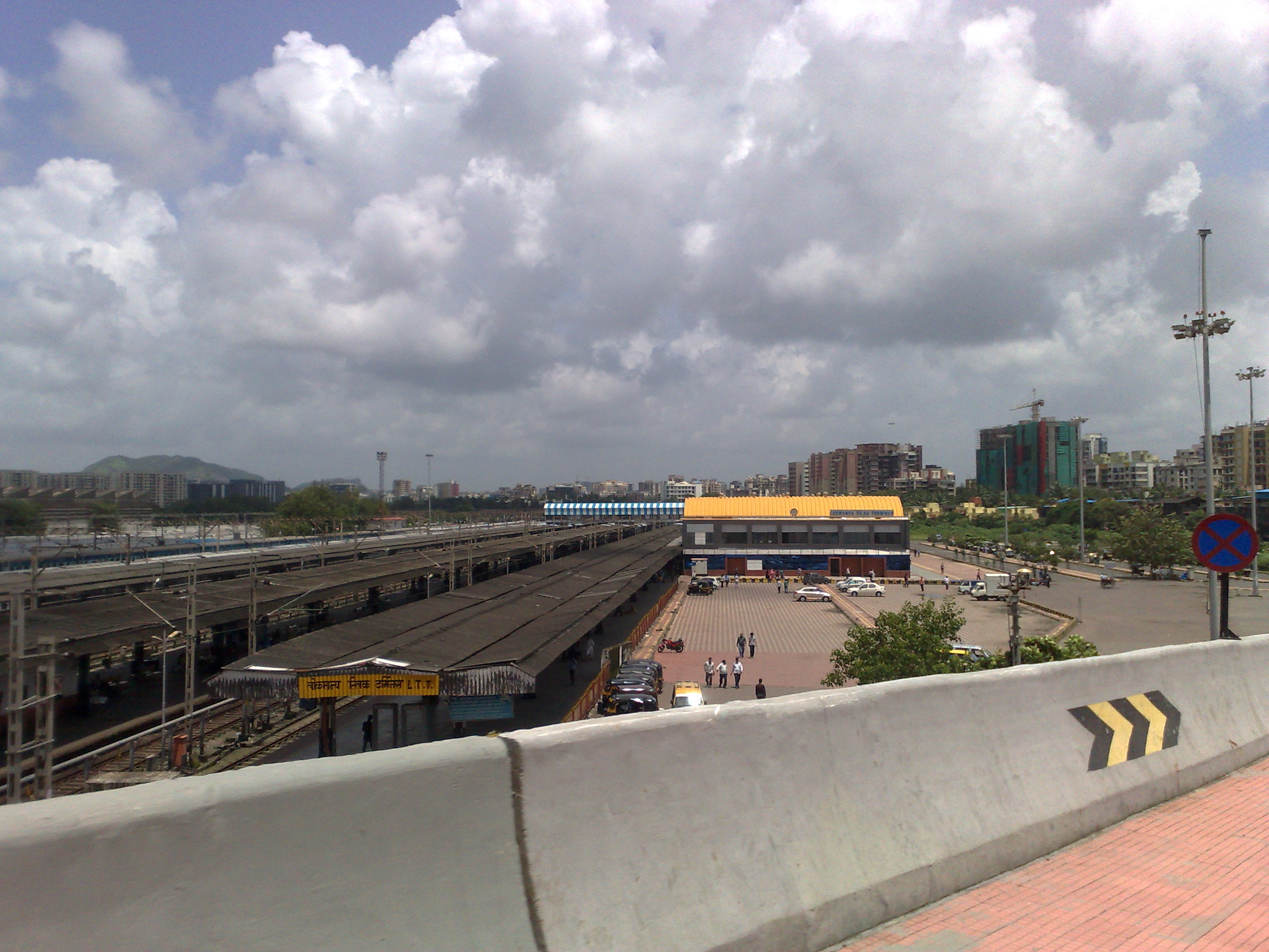 Overview of Lokmanya Tilak Terminus